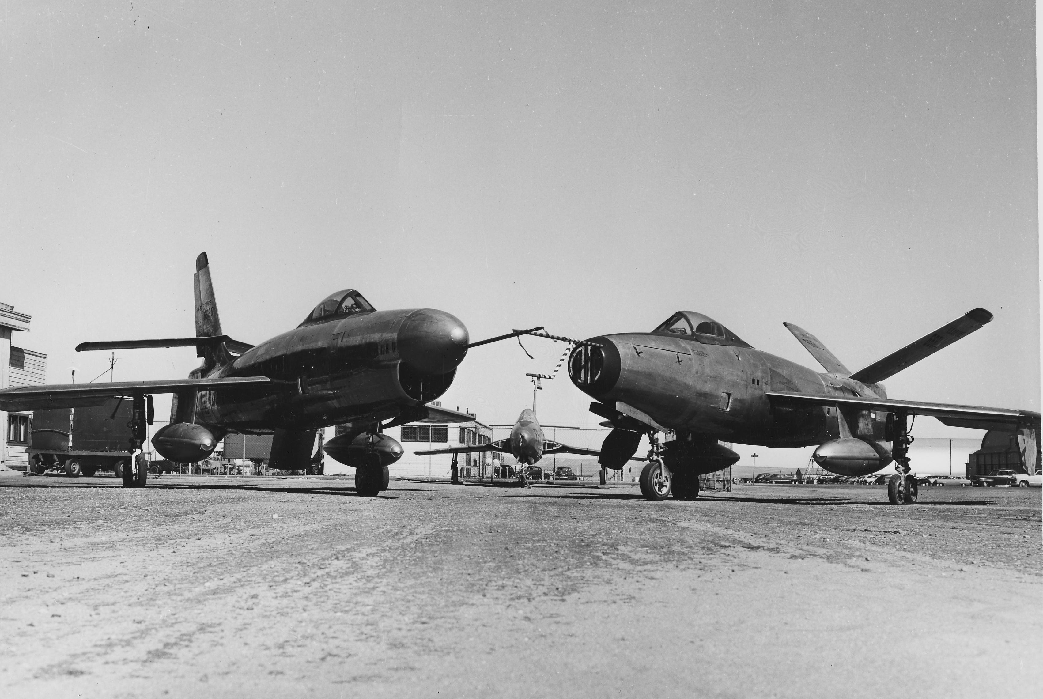 Republic XF-91 S/N 46-680 after installation of a radome, and XF-91 S/N 46-681 after being modified with a V-tail.